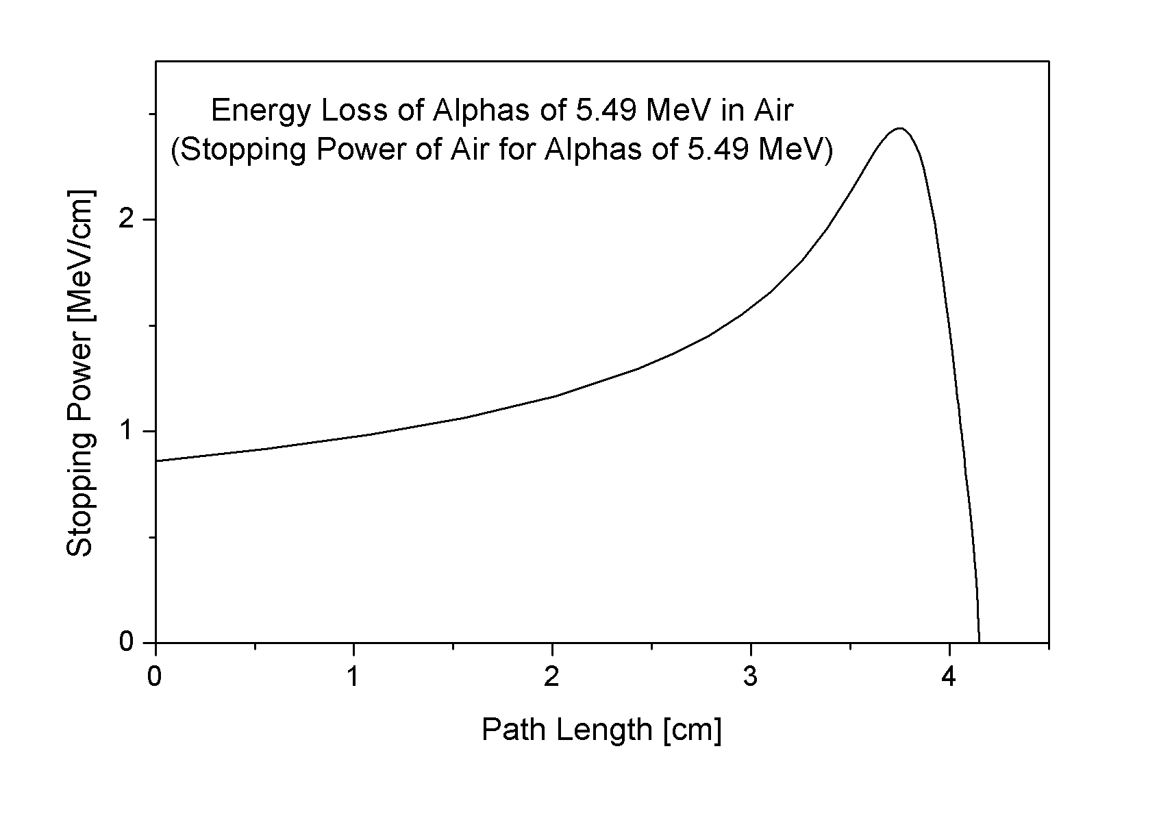 Bragg Curve for Alphas in Air